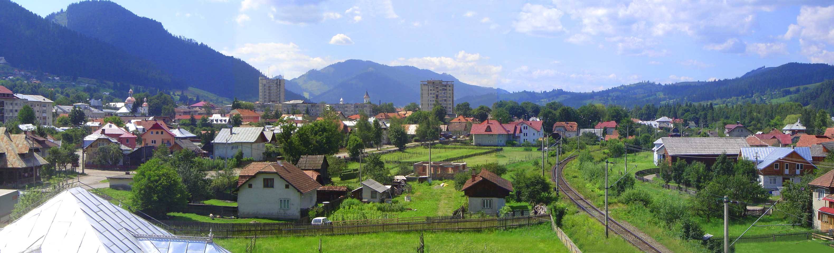 This is a number of 3 photos made by me in 2006. After that I put them together to obtain a panoramic view of Campulung Moldovenesc, county Suceava, country Romania.